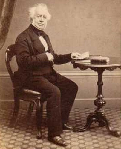 Benedictus Marwood Kelly in the 1860s